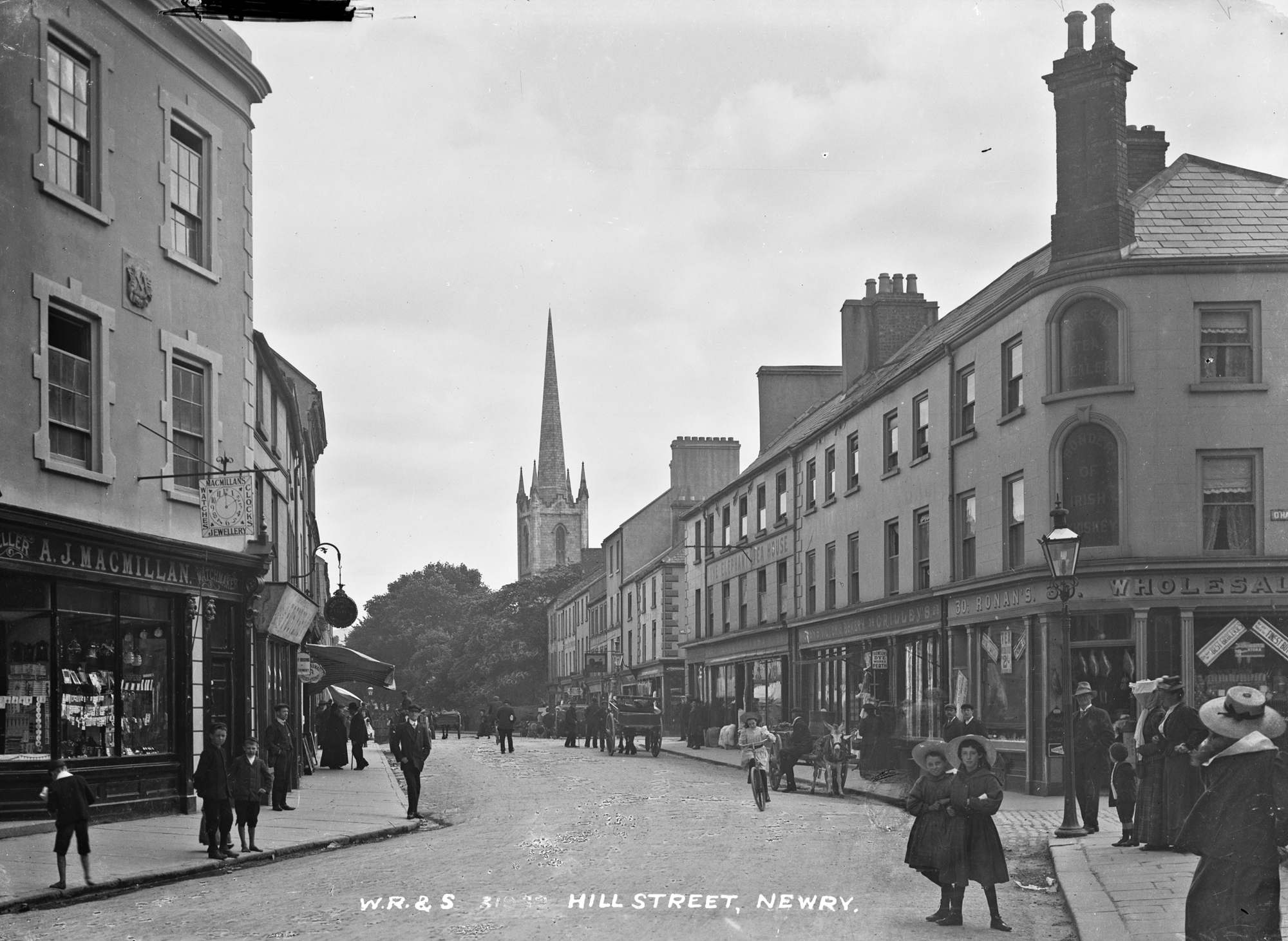 This lovely Eason image of Newry to start the week on a happy note. In what appears to be a pleasant Spring/Summer day, there are lots of people out and about on the street with many prepared to stand and pose for the camera! I was in Newry last week and it looks very different now... As usual there was lots of input on the shops visible (and their owners and occupiers). One of the most telling contributions today was from [/photos/gnmcauley/ Niall McAuley], whose hunt through census and street directories has helped refine the ~40 year range, to ~4 year range around 1910. For us, while we always love the discussion on the names and businesses captured, the delight in the (nameless) kids is what really makes this image for us :) Photographer: Unknown Collection: Eason Photographic Collection Date: Catalogue range c.1900-1939. Though likely c.1907-1911 NLI Ref: EAS_1441 You can also view this image, and many thousands of others, on the NLI’s catalogue at